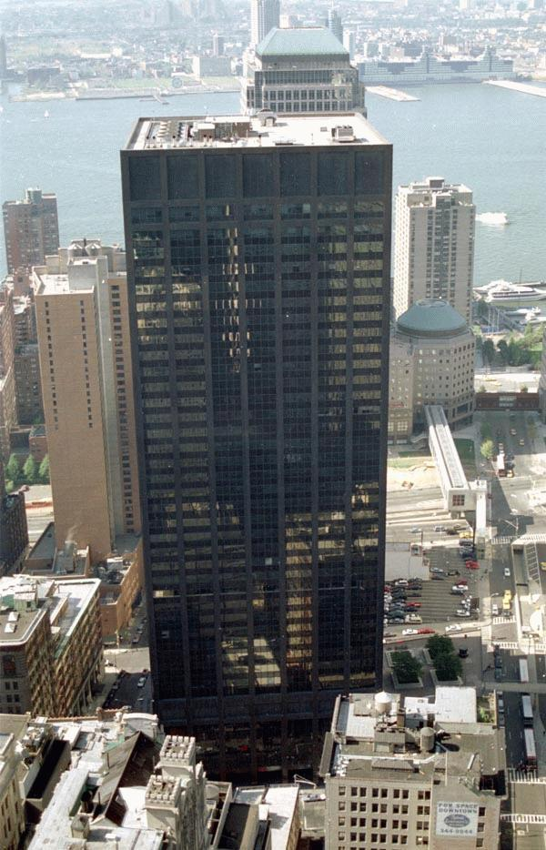 Deutsche Bank Building 130 Liberty Street in New York City, NY from 1997.